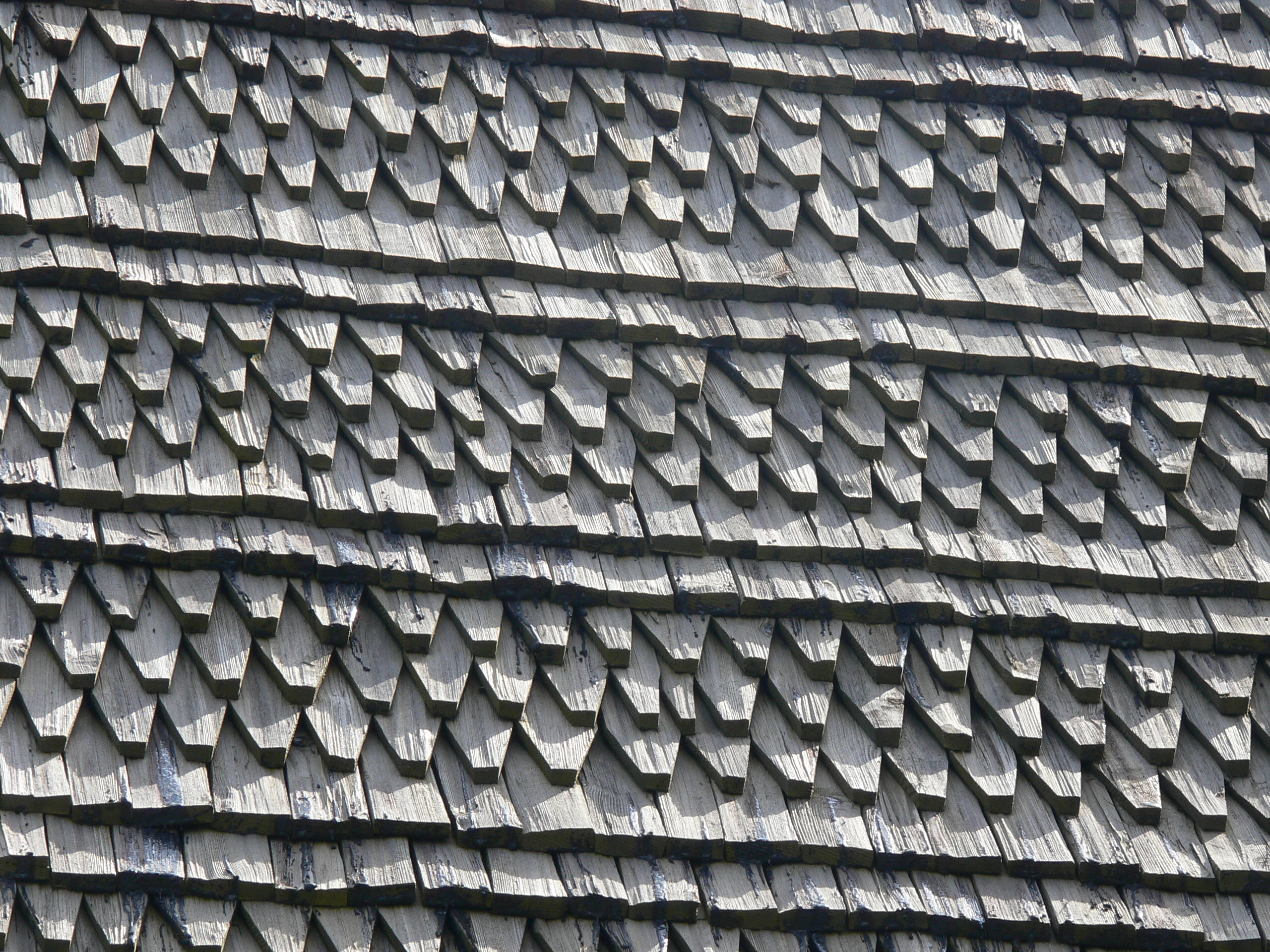 Yterselö church. Shingle roof.